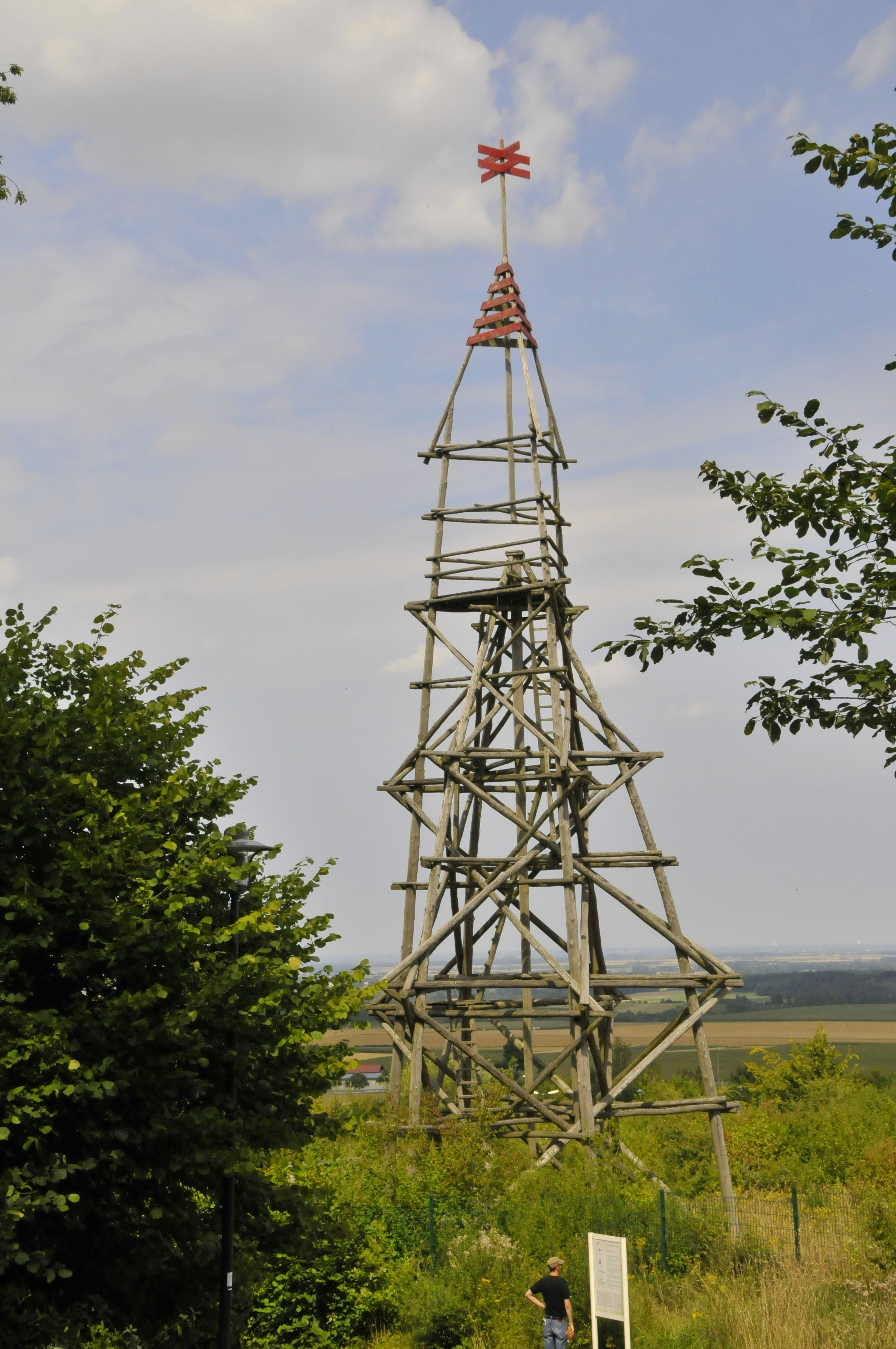 Triangulation Tower in Kommern, Germany.